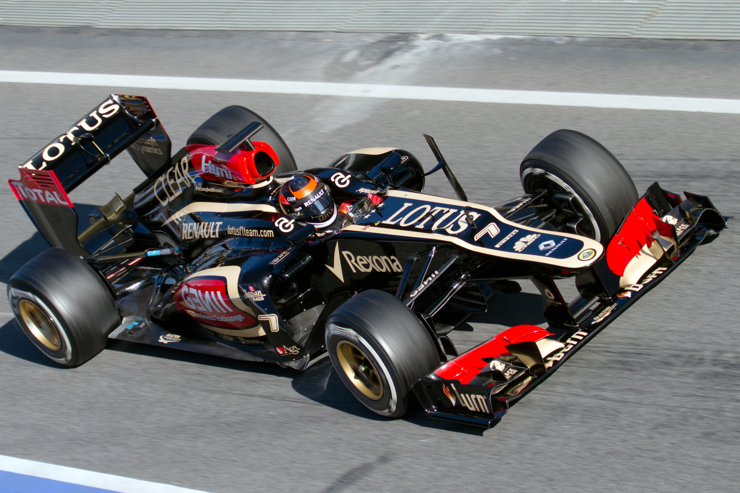 Formula One 2013 Catalonia test (19-22 February): Kimi Räikkönen (Lotus)